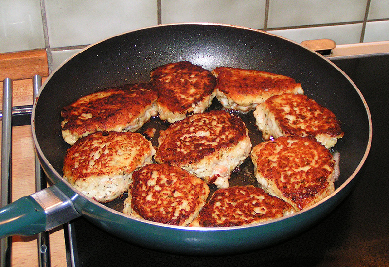 Danish fried fishballs made with shrimps and herbs